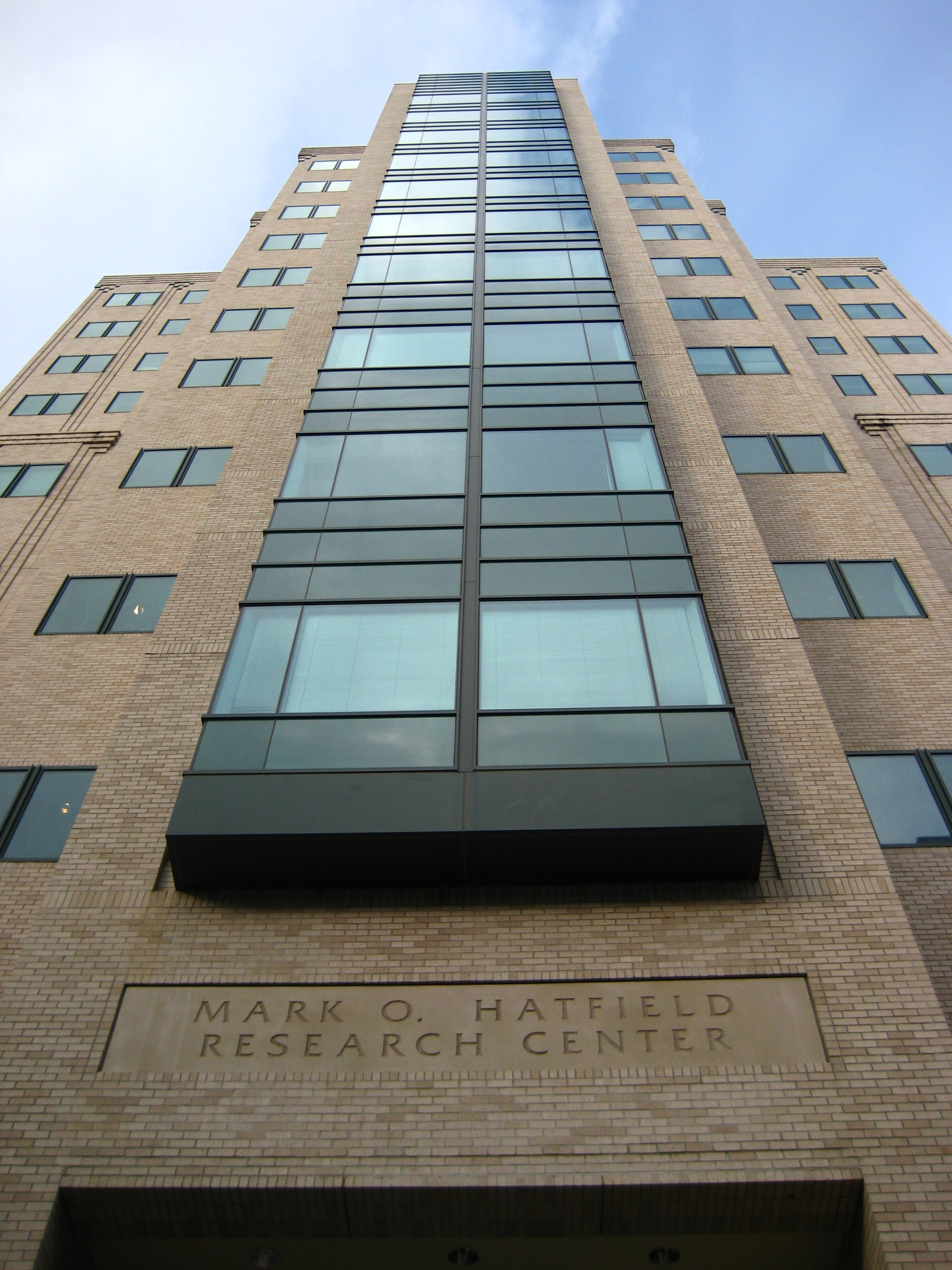 Mark O. Hatfield Research Center at the Oregon Health & Scienc University in Portland, OR.